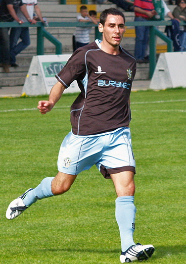 Bury FC midfielder Danny Racchi during the Northwich Victoria vs. Bury pre-season friendly at The Marston’s Arena, home of Northwich Victoria FC. Saturday 2nd August 2008